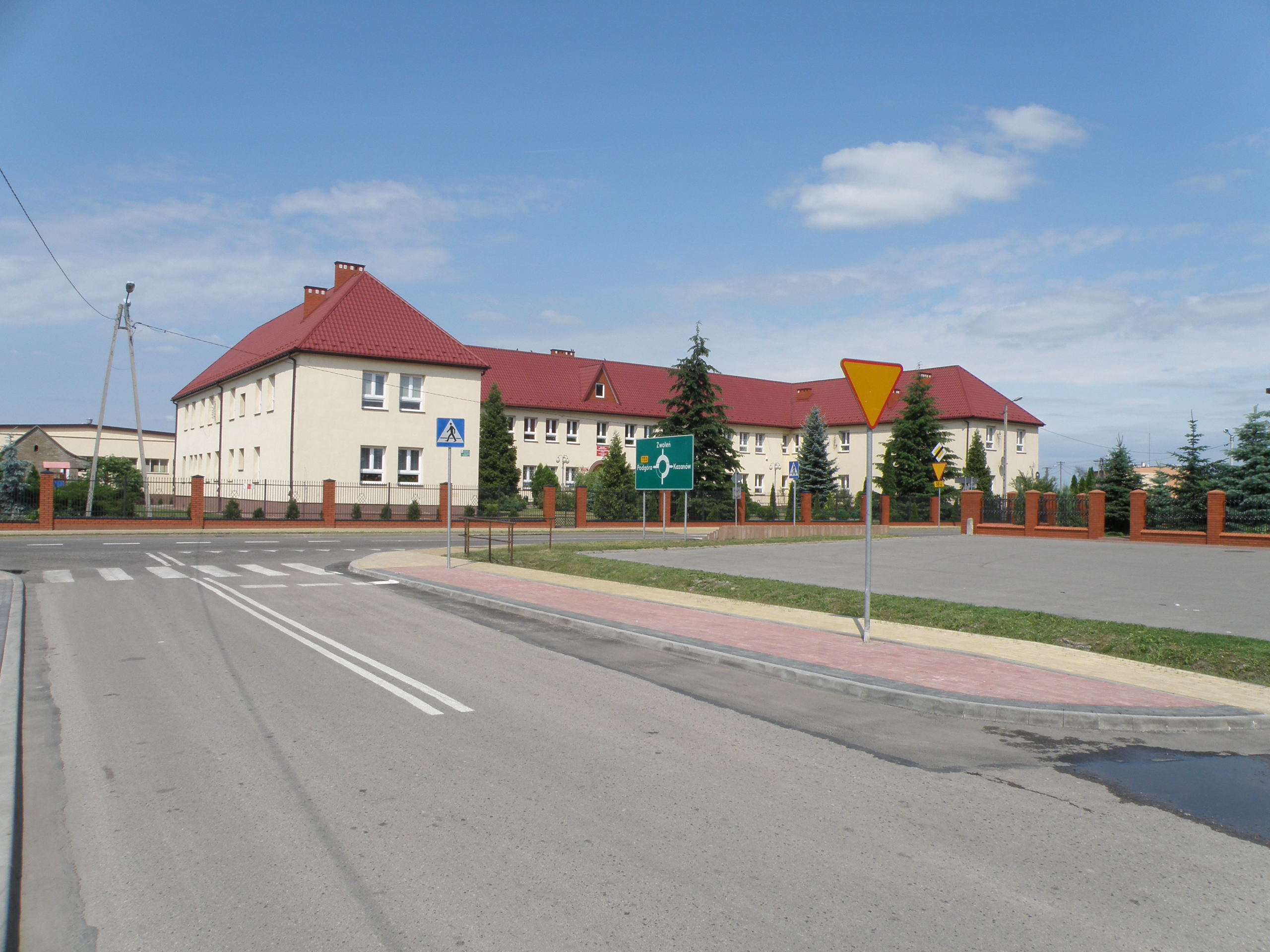 Schools in Tczów